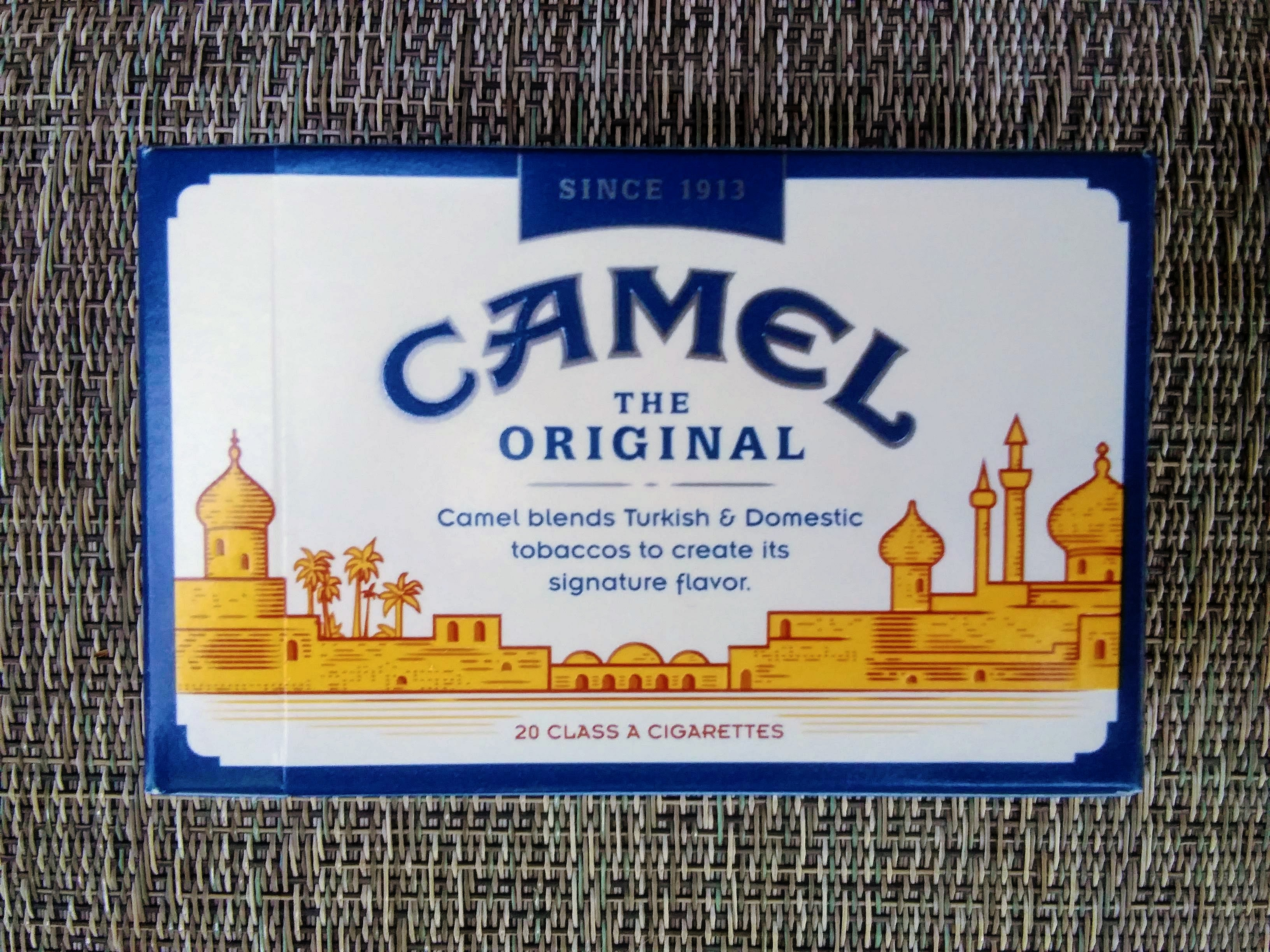 The reverse side of a pack of Camel's cigarettes ~